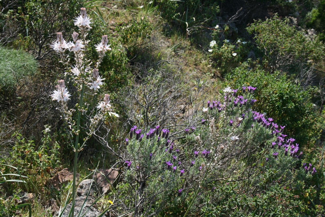 Corsican garrigue flowering at the end of April.